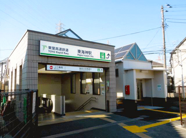 Toyo Rapid Railway Higashi-Kaijin Station T4 Exit